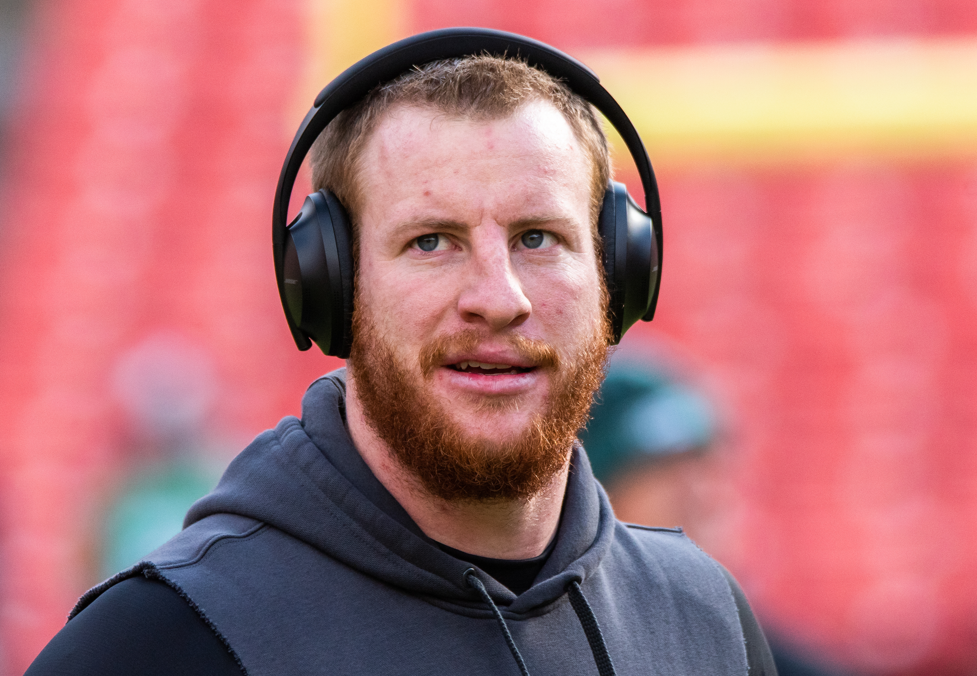 In 2019